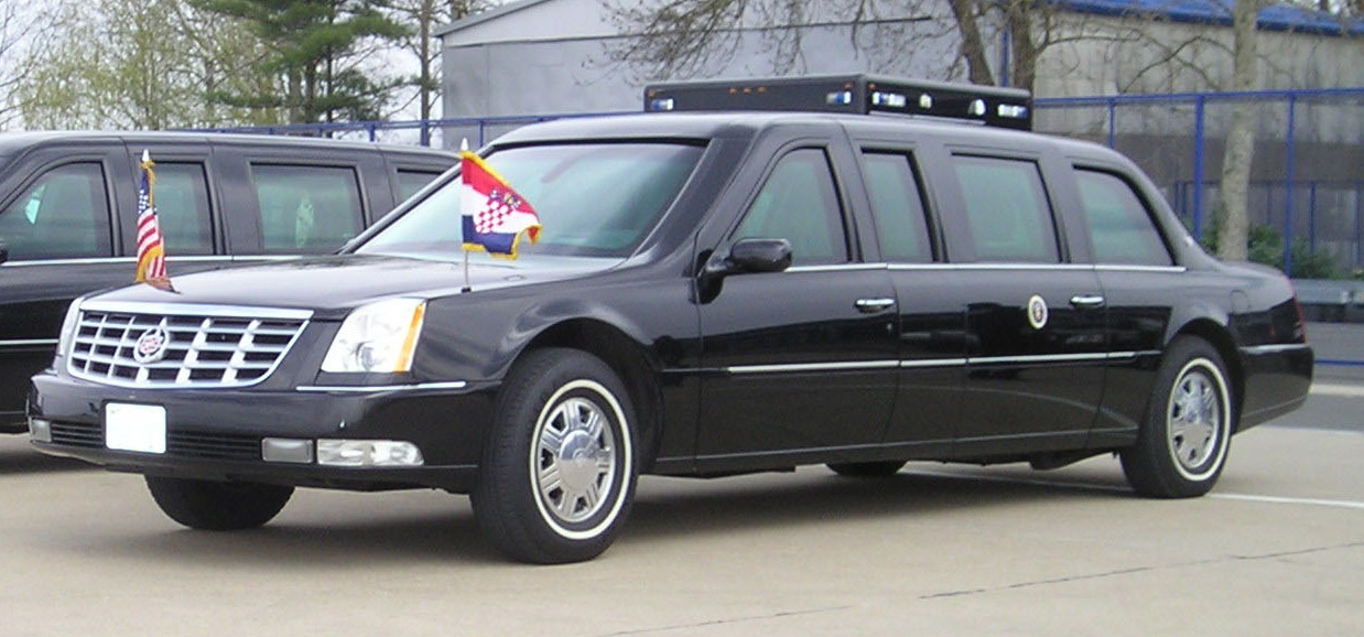 Limousine of President George W. Bush in Zagreb, Croatia